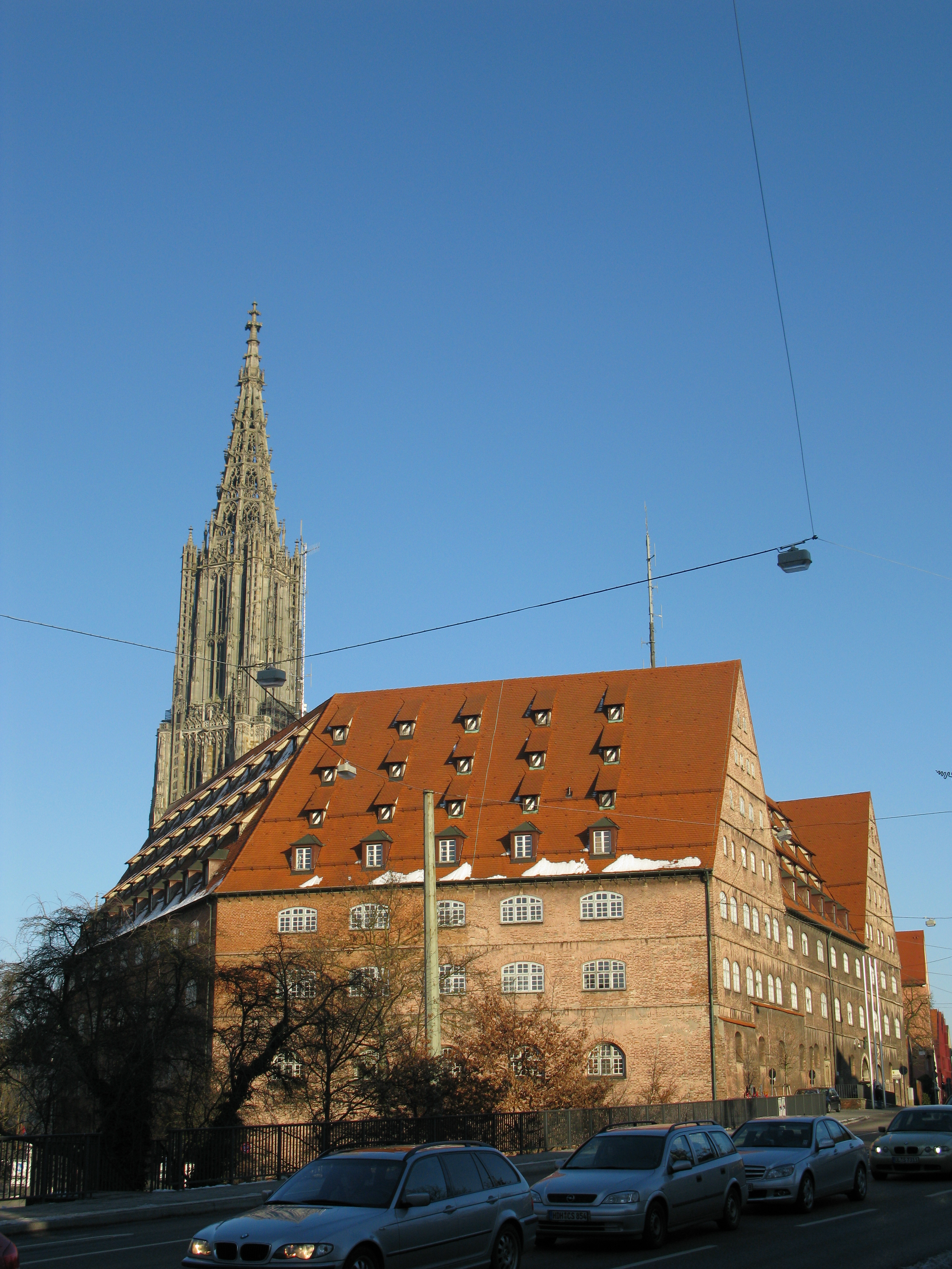 The Neue Bau in the city centre of Ulm - today the headquarter for the police.